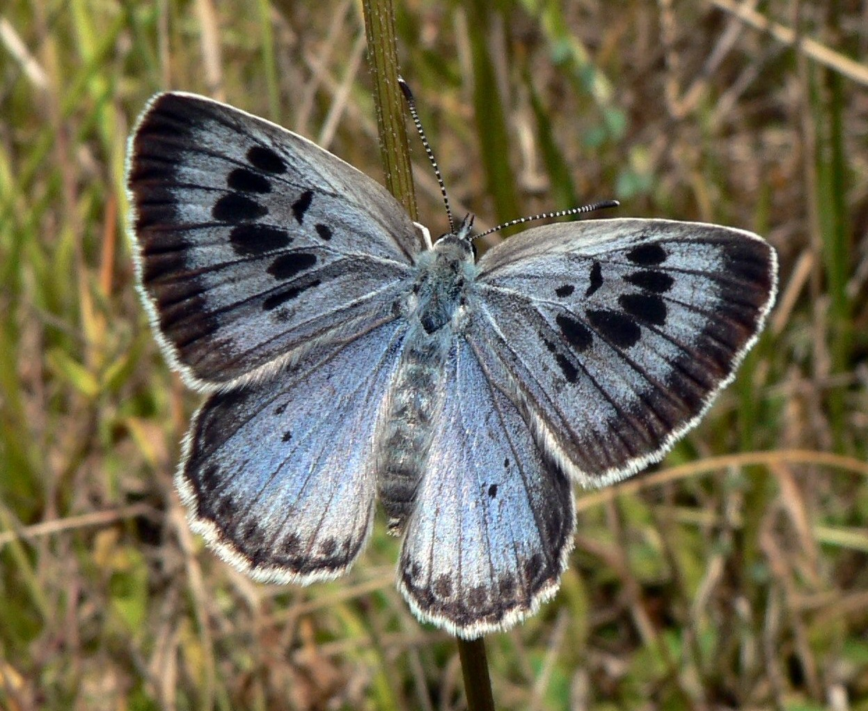 Large Blue butterfly, Maculinea arion, Rabastens-de-Bigorre, Hautes Pyrénées, France